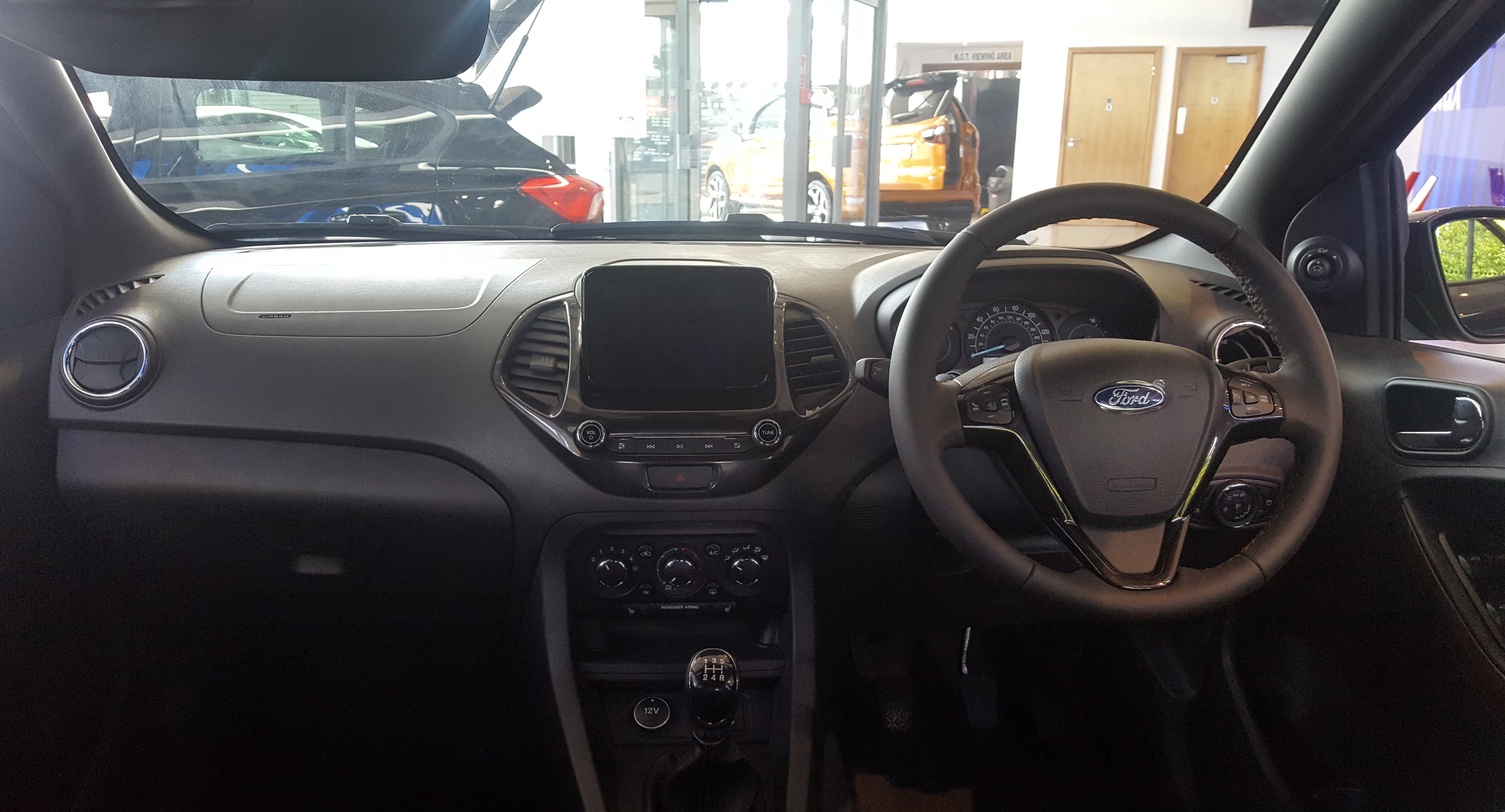 2018 Ford KA+ Active Interior